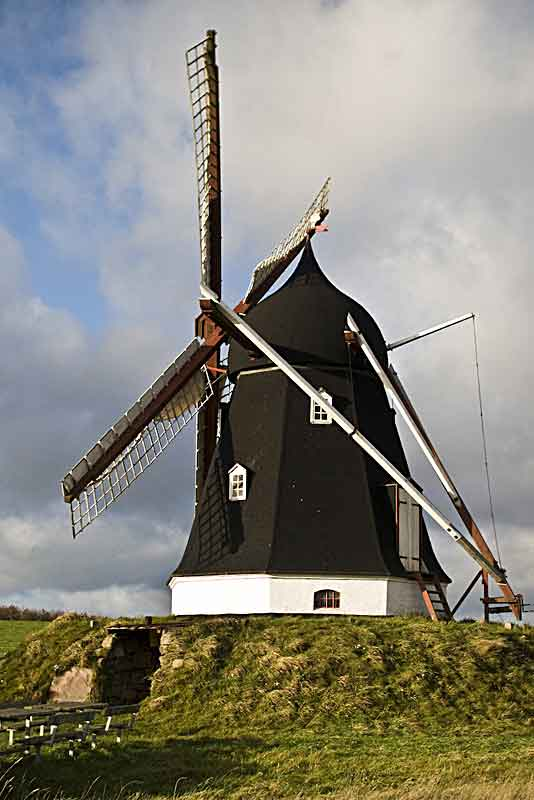 Dorf Mølle, old windmill in Vendsyssel, Denmark